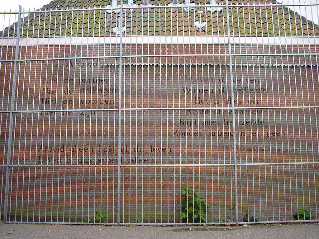 Wallpoem in de city of Leiden in the Netherlands.